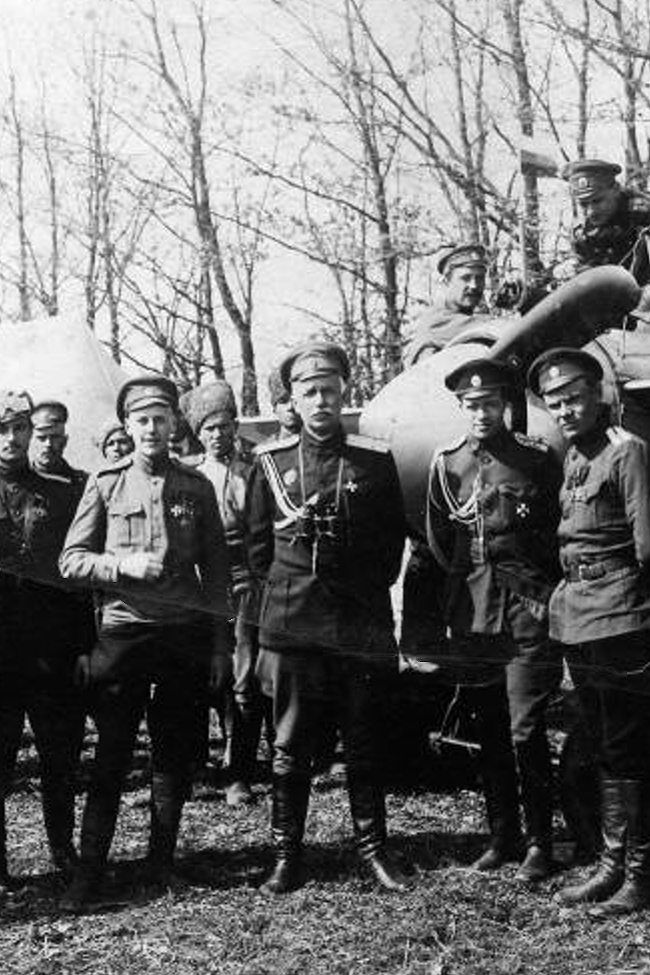 Major-General Andrey Evgeny Snesarev during a check in the 7th fighter squadron. World War I on the eastern front, approximately March 1917.